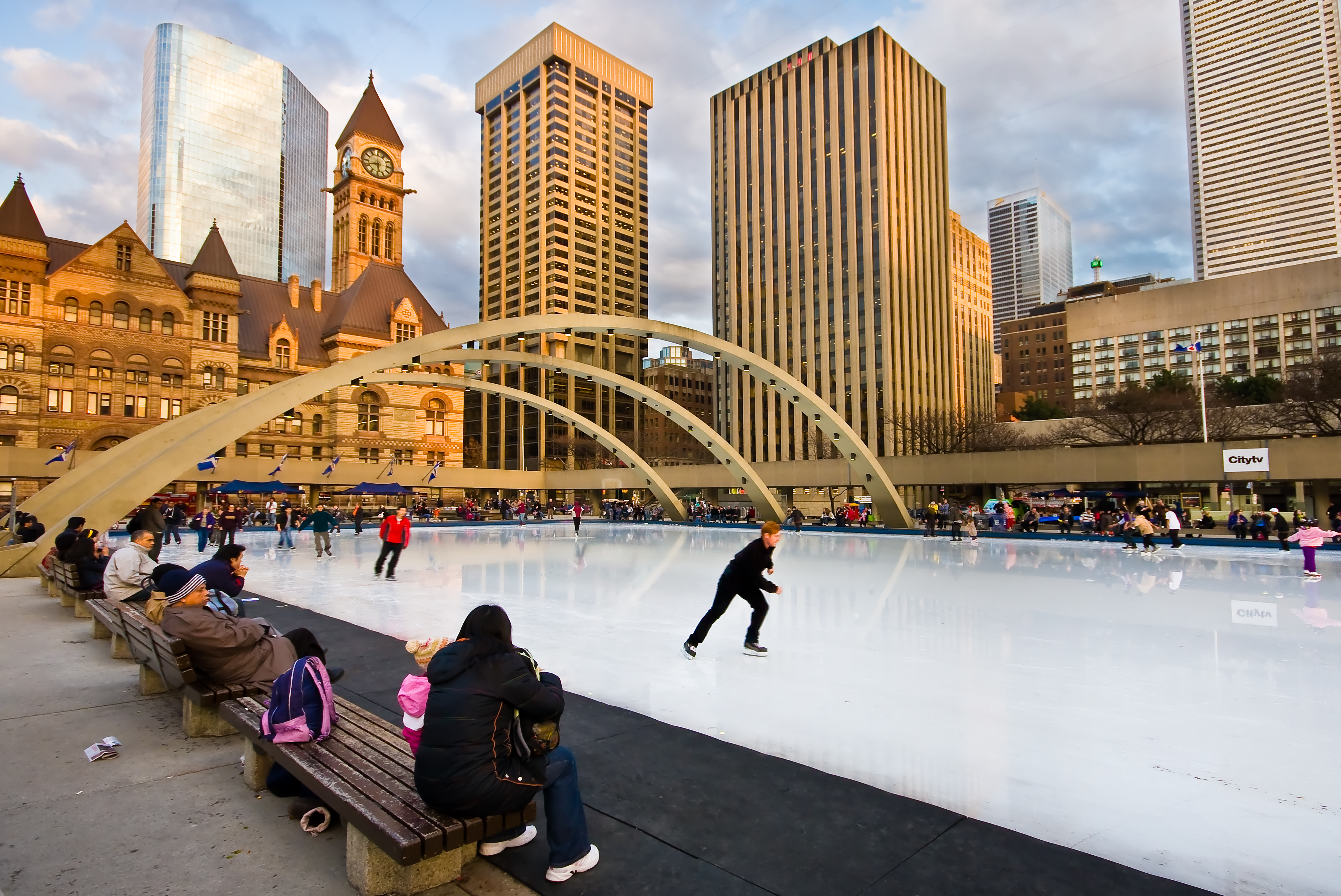 The ice rink at Nathan Philips Square. The people were having so much fun on the ice and I wished I could've gone on too, but then I can't really skate. I'd probably slide on the ice and hit everyone and cause a massive crash on the ice lol. Toronto, Ontario